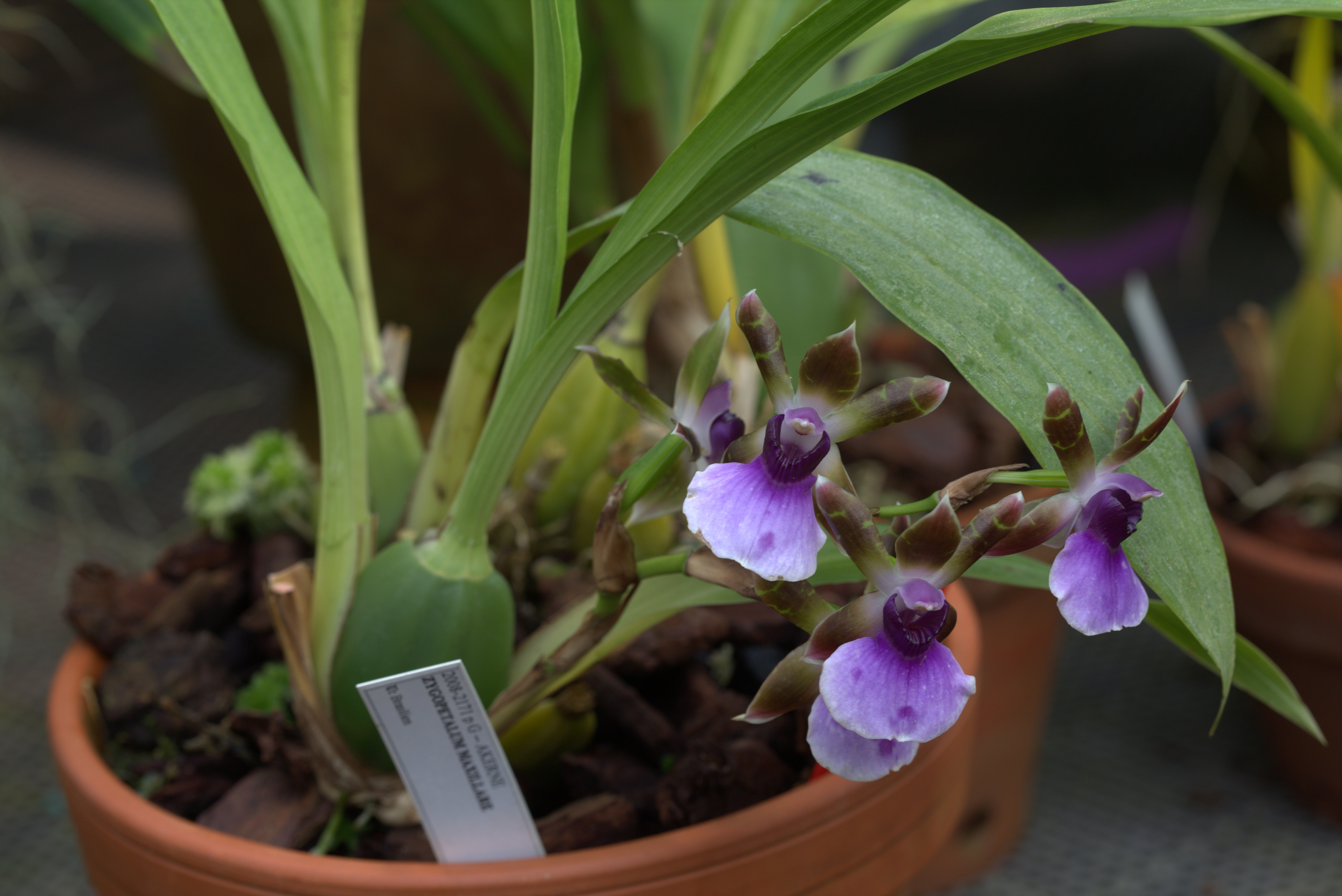 Zygopetalum maxillare in Gotheburg Botanical Garden. Plant id: 2008-2172p G -- Akerne